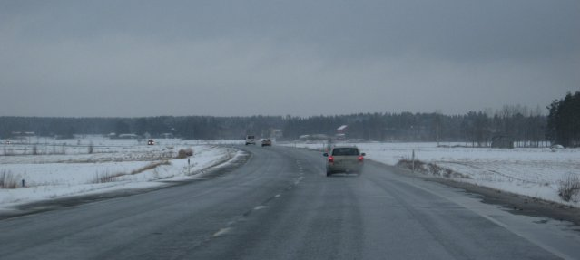 Highway 19 in Alahärmä, Finland